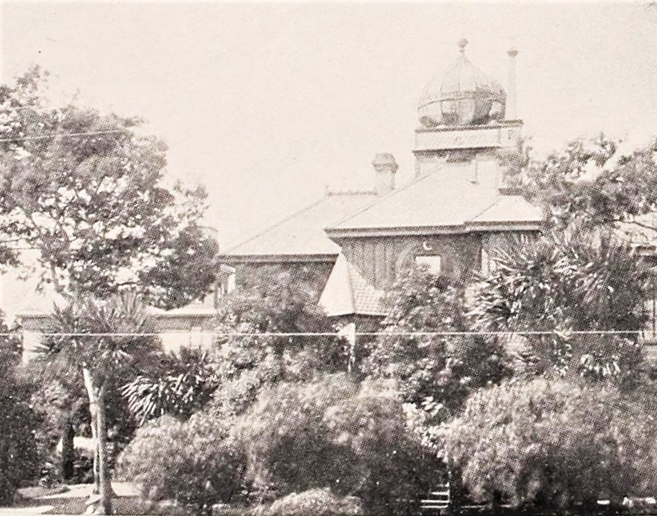 Exterior of the Harry Ashland Greene Mansion in Monterey California